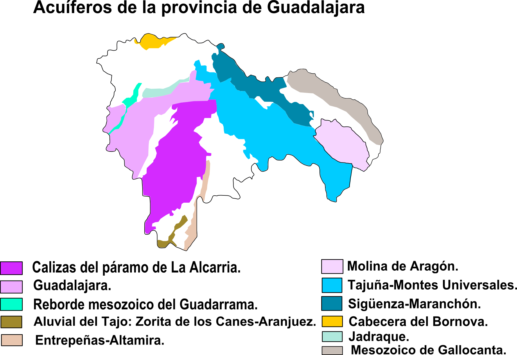 Aquifers in province of Guadalajara, Castile-La Mancha, Spain.